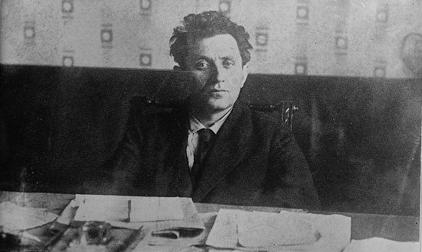 Gregory Zinoviev, Russian bolshevik politician, President of the Petrograd soviet at the time the picture was taken.